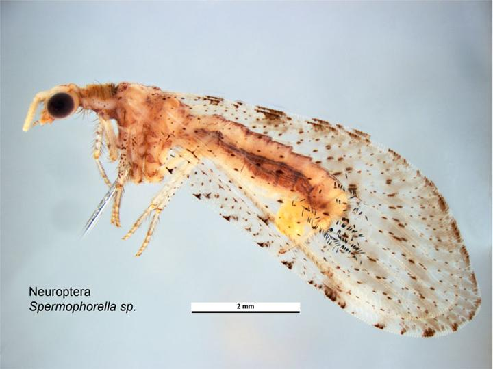 Spermophorella sp., family Berothidae